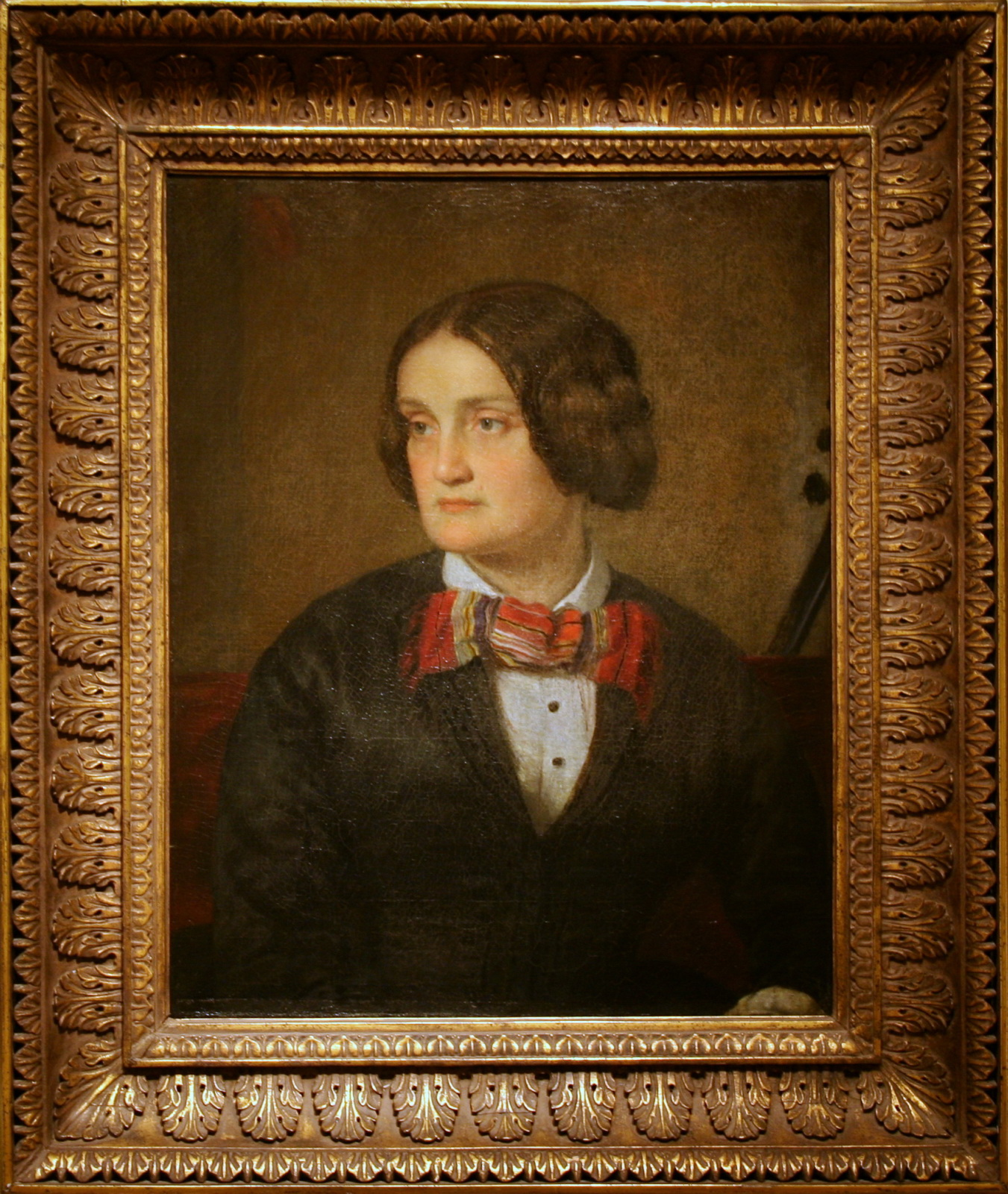 Portrait of Charlotte Cushman (1816-1876)